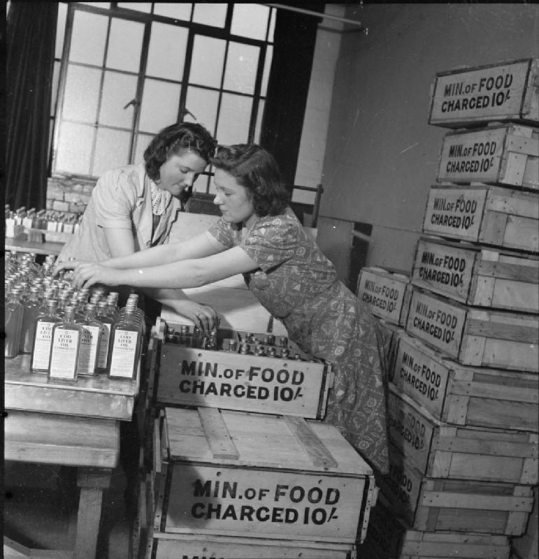 A Chemist Carries On- the work of Allen and Hanburys in the Production of Cod Liver Oil, 1942 Women in the Packing Department at the Allen and Hanburys factory pack bottles of cod liver oil compound into batches, ready to be dispatched from the factory. They are packing them into crates or boxes stamped with the words 'Min. of Food Charged 10/-'.